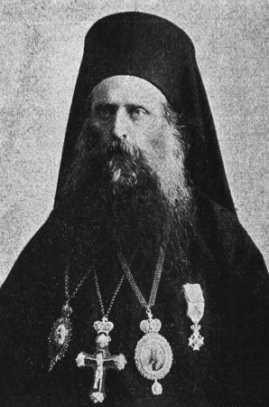 Dionysius (1856-1910): Bishop of Rethimnon